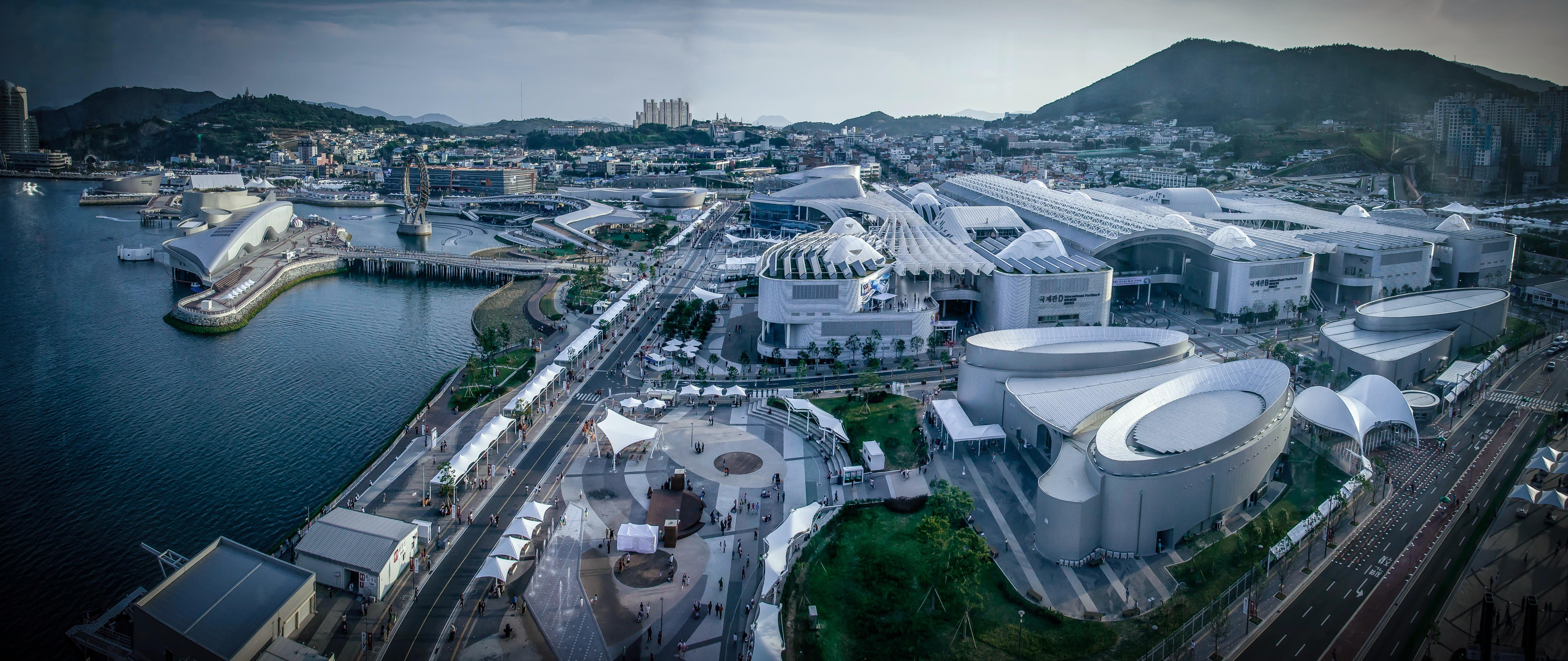 Panoramic view of Expo 2012 Yeosu from the Sky Tower.